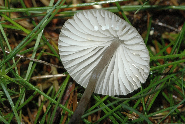 Mycena galopus from Commanster, Belgium. The determination of the species shown in this picture has been verified.